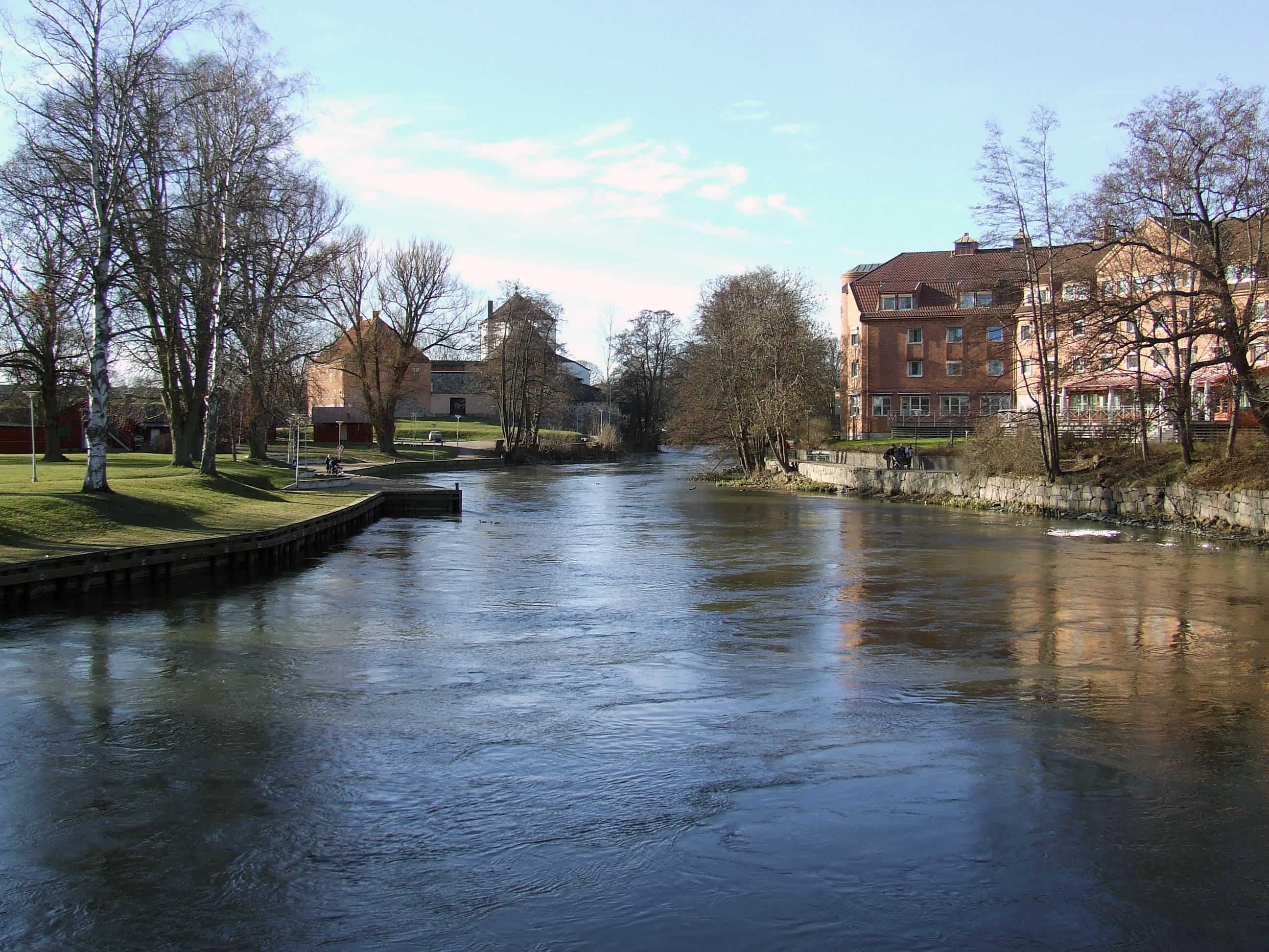 Nyköpingsån - river in Sweden